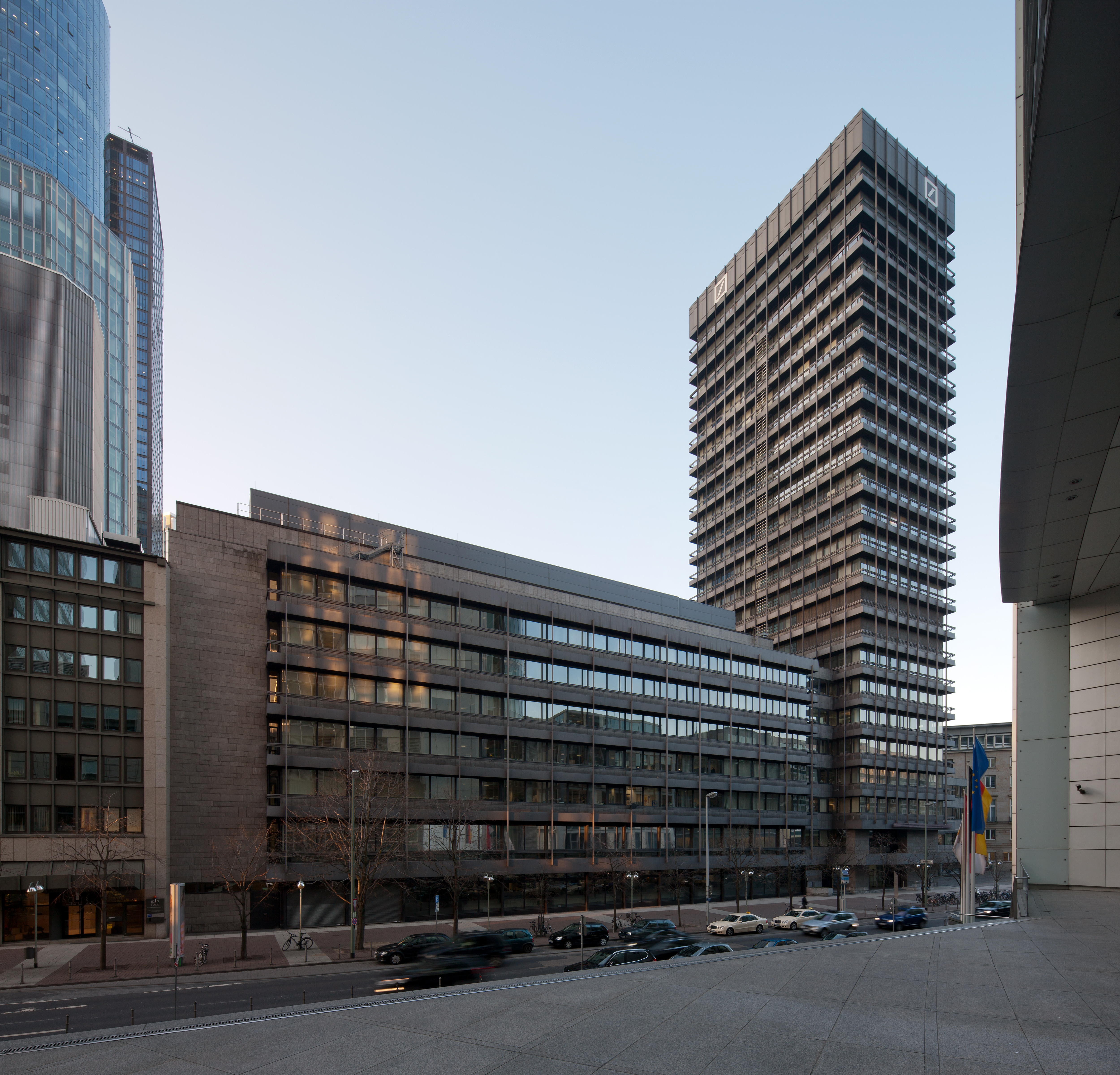 Frankfurt on the Main: Deutsche Bank IBCF (German Bank ICBF) as seen from the southwest